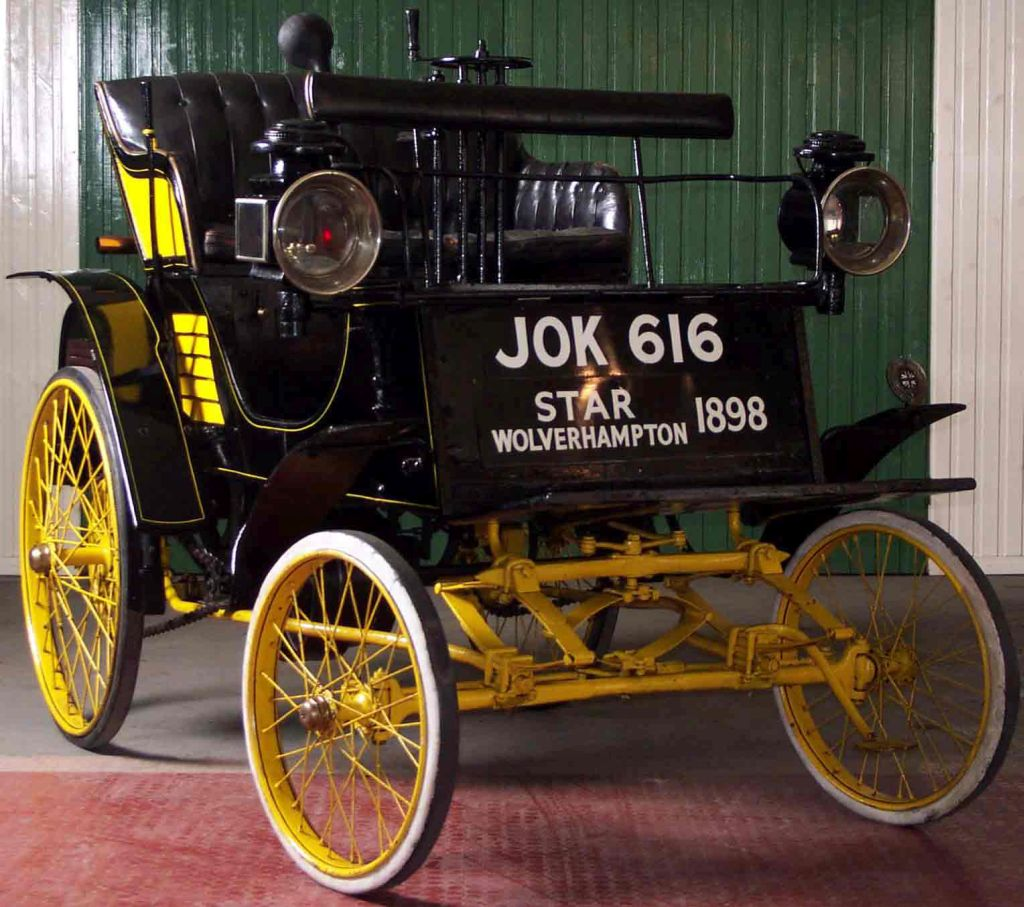 Star Benz Motorcar in the Thinktank Birmingham Science Museum. The Star Cycle Company were based in Wolverhampton and built this car in 1898, using a design bought from Benz in Germany.